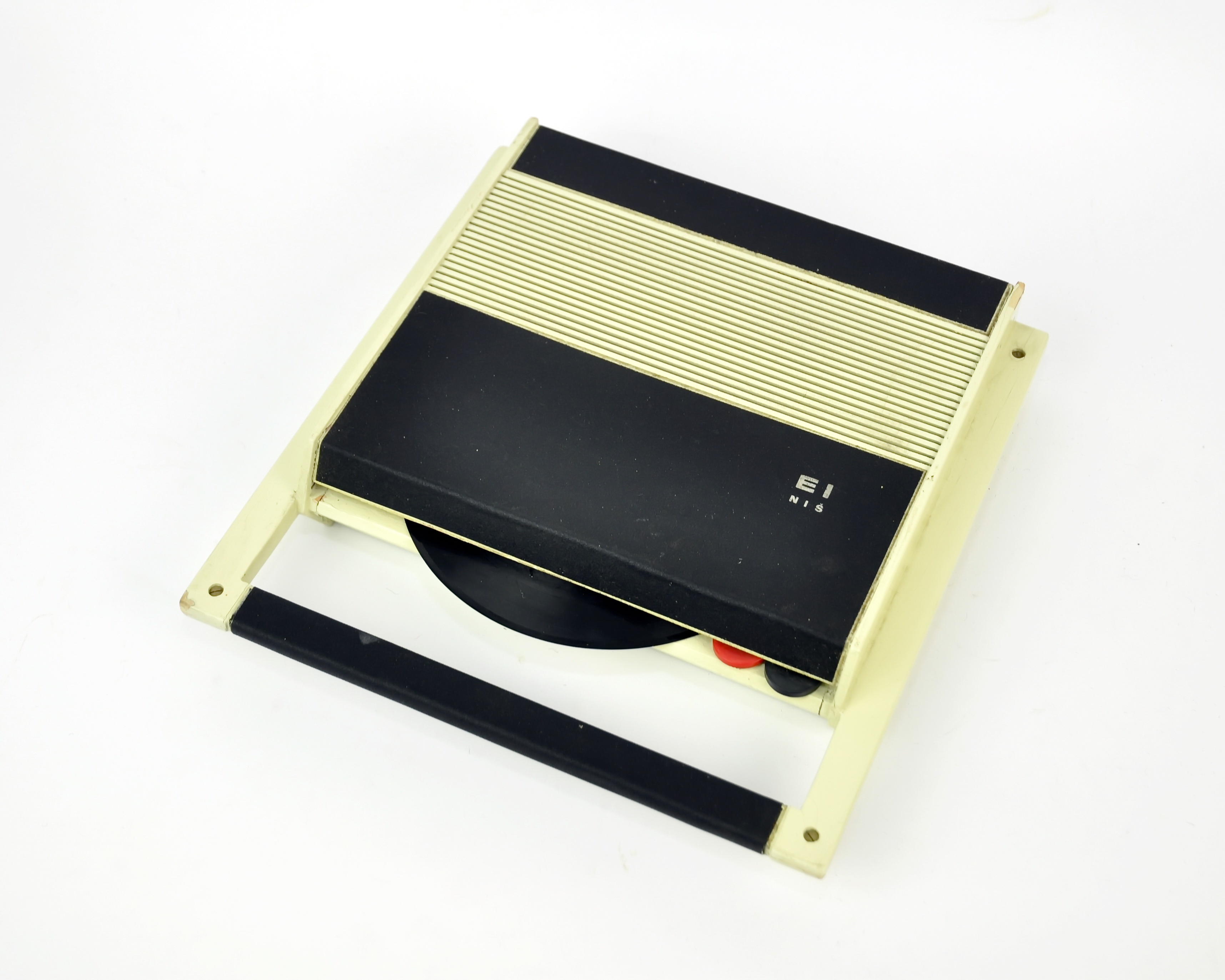 Portable record player, designed by Gojko Varda for DINKEL, 1968/1969.